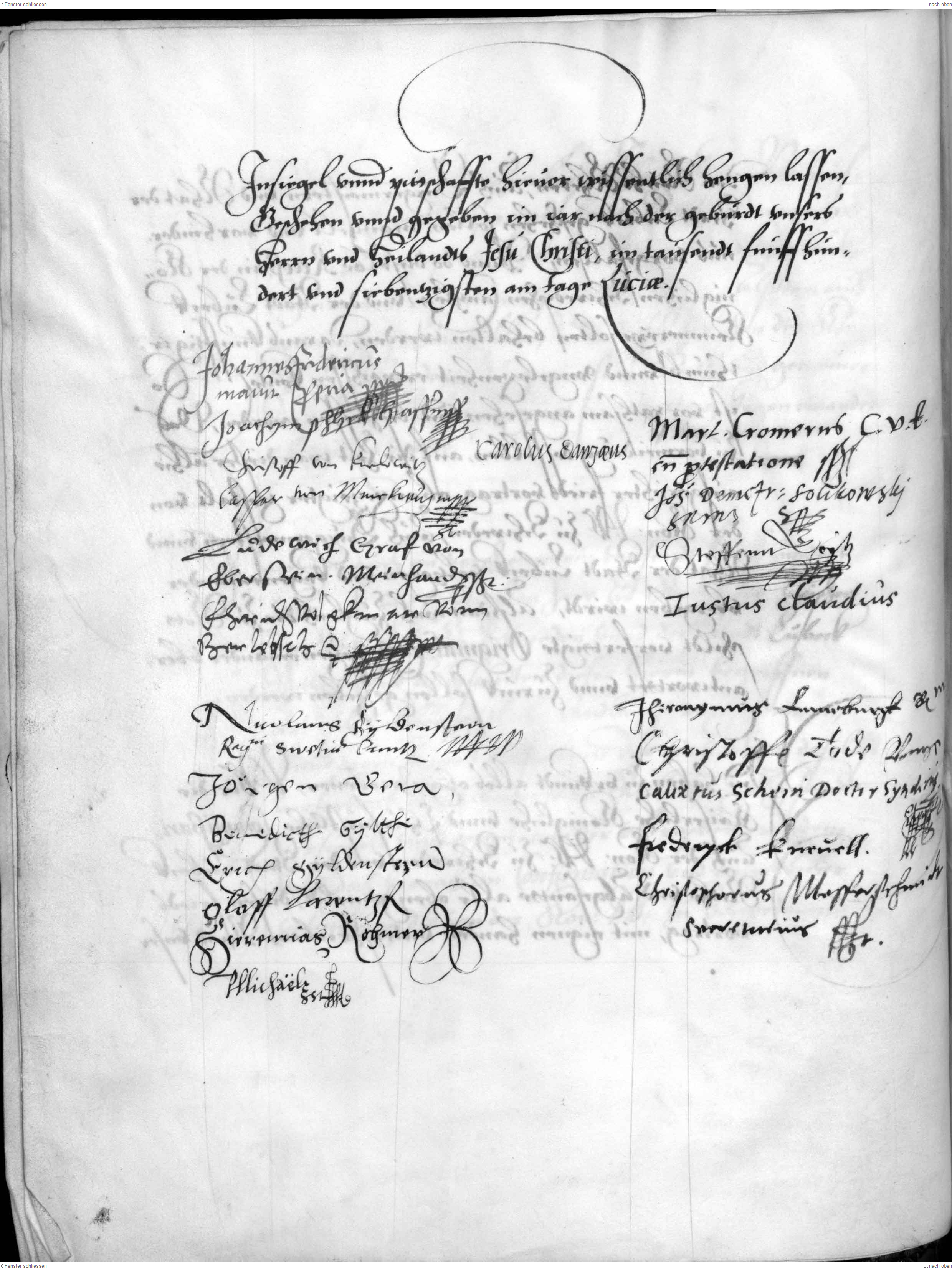 Signature page of the peace treaty of Stettin (Document 2 Sweden-Lübeck), 1570